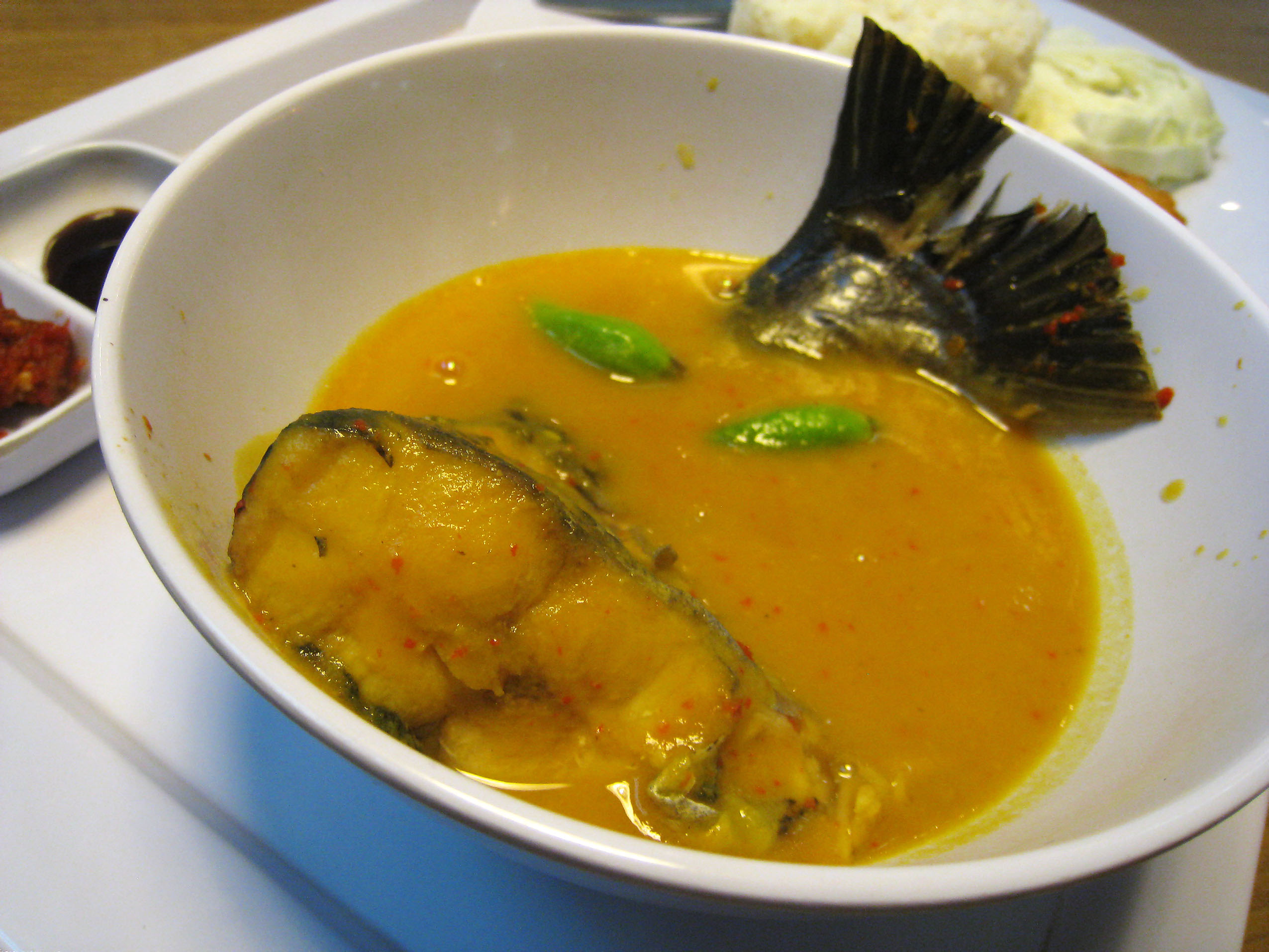 Tempoyak Ikan Patin, pangasius catfish served in sweet and spicy tempoyak sauce, a fermented durian-based sauce. Specialty of Palembang city, South Sumatra. Served at a Palembang food stall at Food Colony Foodcourt, Atrium Senen Plaza, Central Jakarta, Indonesia.